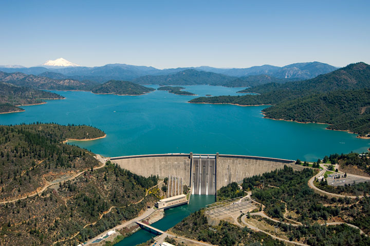 Aerial view of Shasta Dam, California, USA.